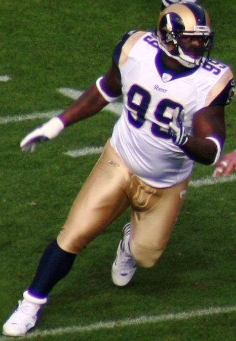 St. Louis Rams defensive tackle Claude Wroten in action in the game against the San Francisco 49ers on November 18, 2007.